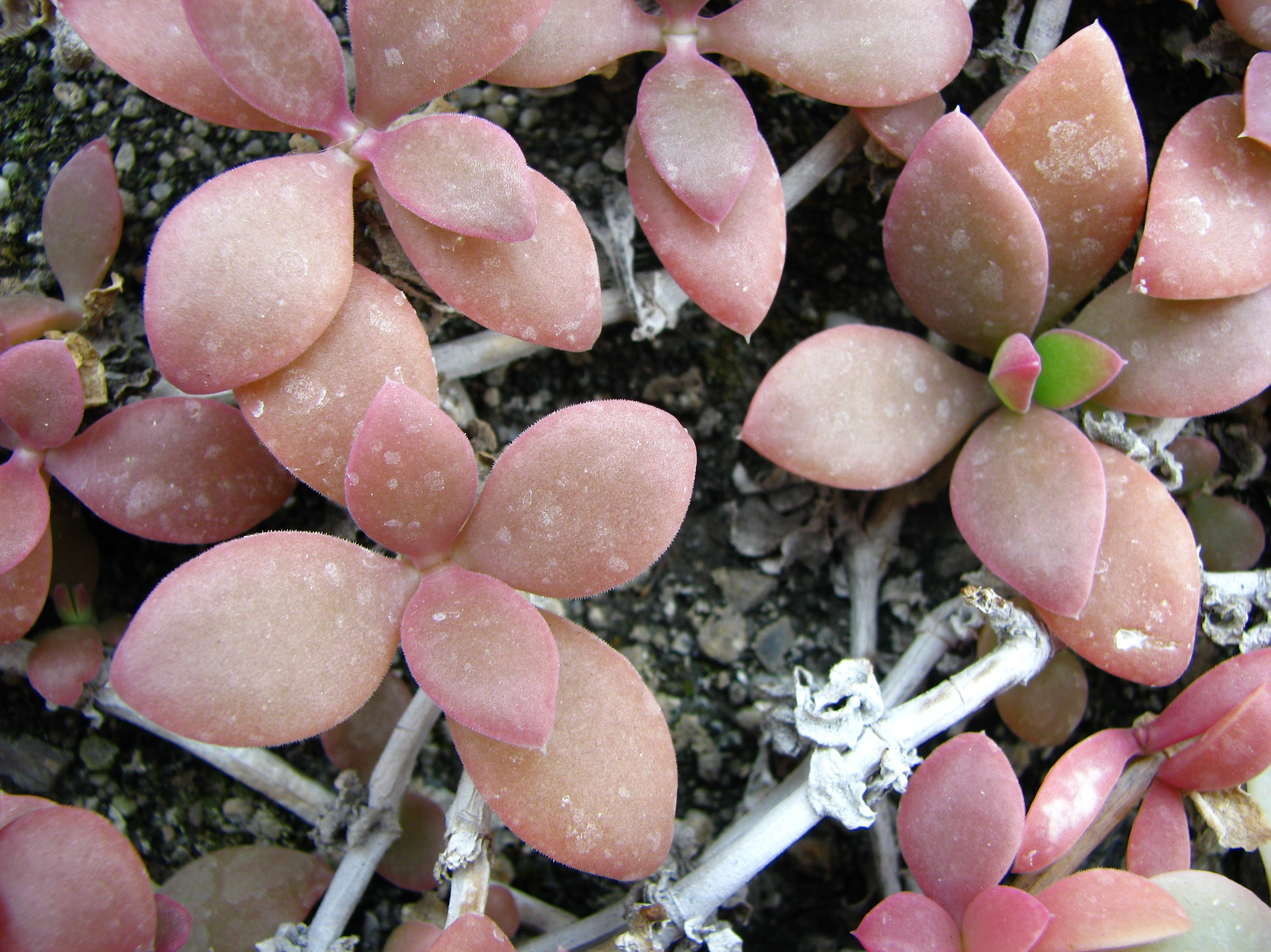 Delosperma tradescantioides, plant cultivated in Wrocław University Botanical Garden, Wrocław, Poland.